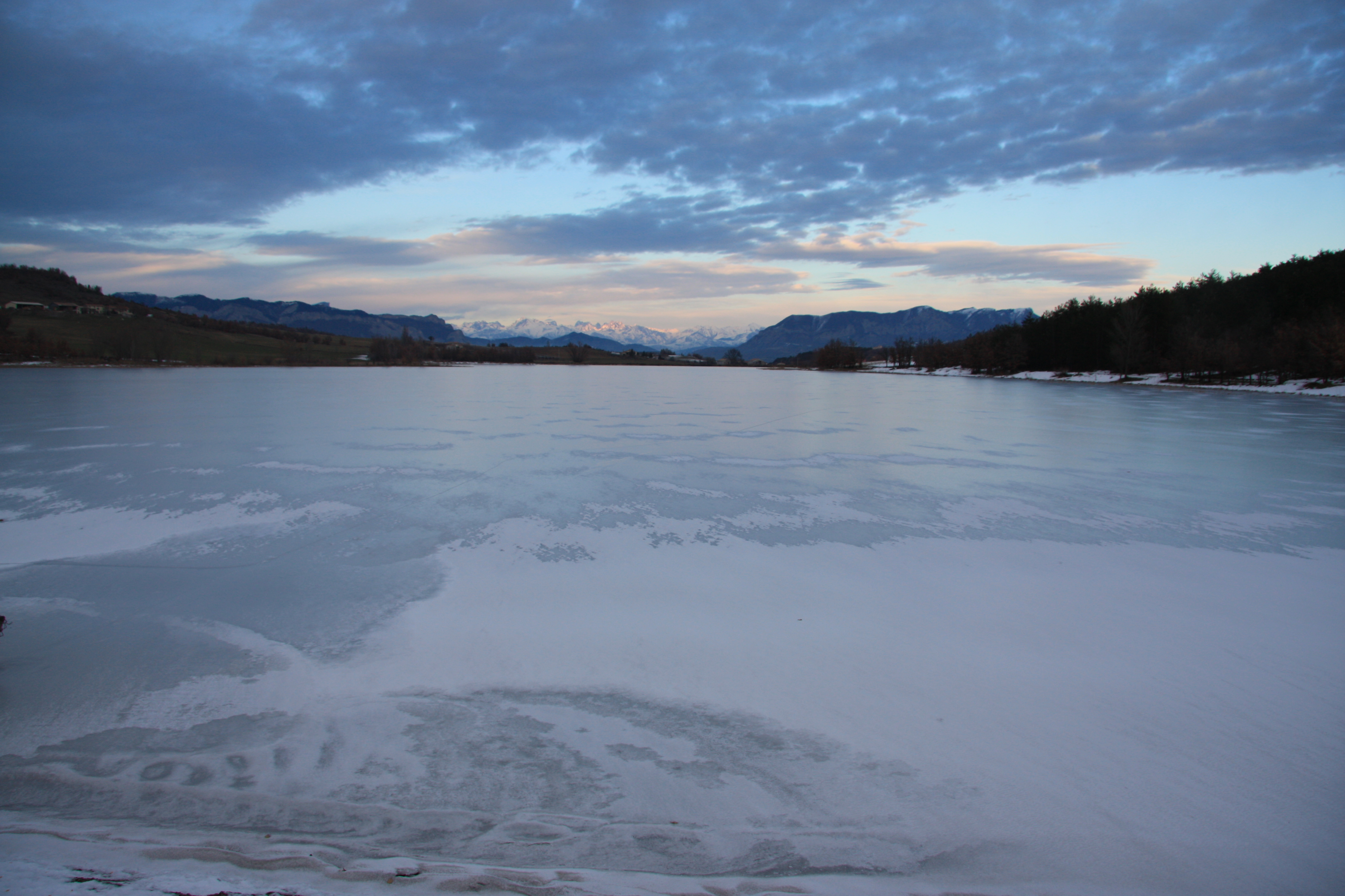 Picture of the lake of Mison (France) in winter